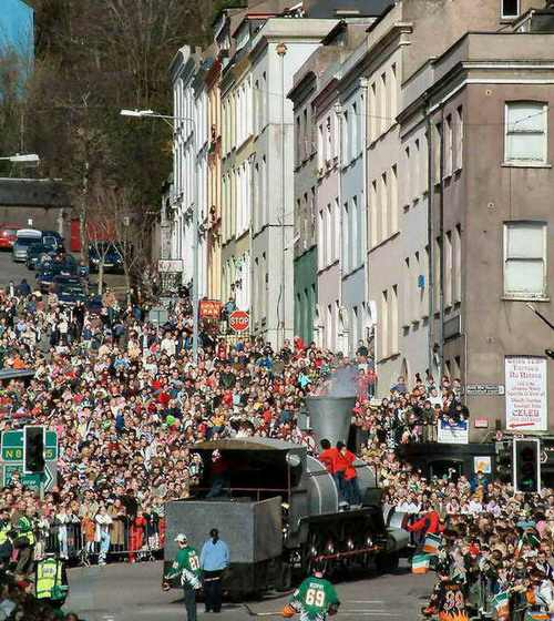 St-Patrick day 2004 in Cork City. More picture of this St-Patrick day and Ireland in general at